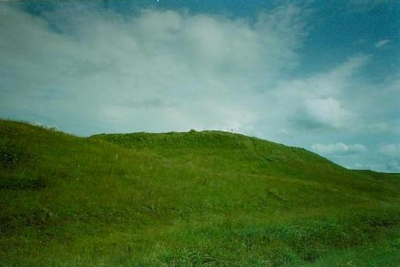 Mountain Alexandrova